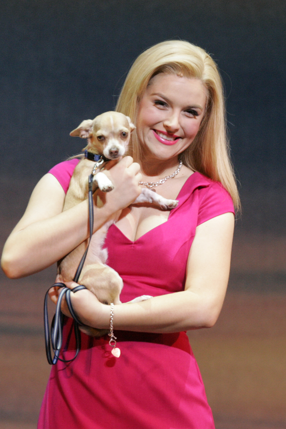 Lucy Durack as Elle Woods in the Australian production of Legally Blonde (musical)